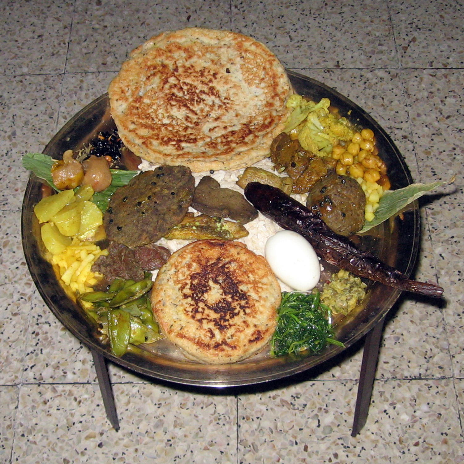 Thaybhu, a ceremonial feast served on an immense plate, is a tradition in Nepalese culture.